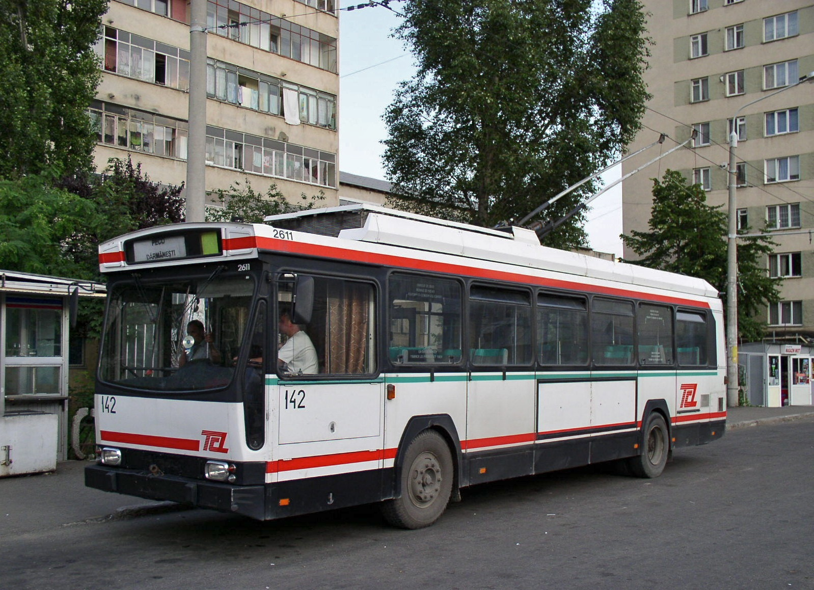 Piatra Neamț trolleybus 142 is a Berliet ER100R trolleybus built in 1977 for the Lyon trolleybus system, originally numbered 3962. After briefly operating in Mediaş, number 2611 was acquired by Piatra Neamț, where it entered service in 2005 or possibly 2004, renumbered 142. In this 2004 photo, it is still wearing Lyon fleet livery and lettering for its former operator, TCL.